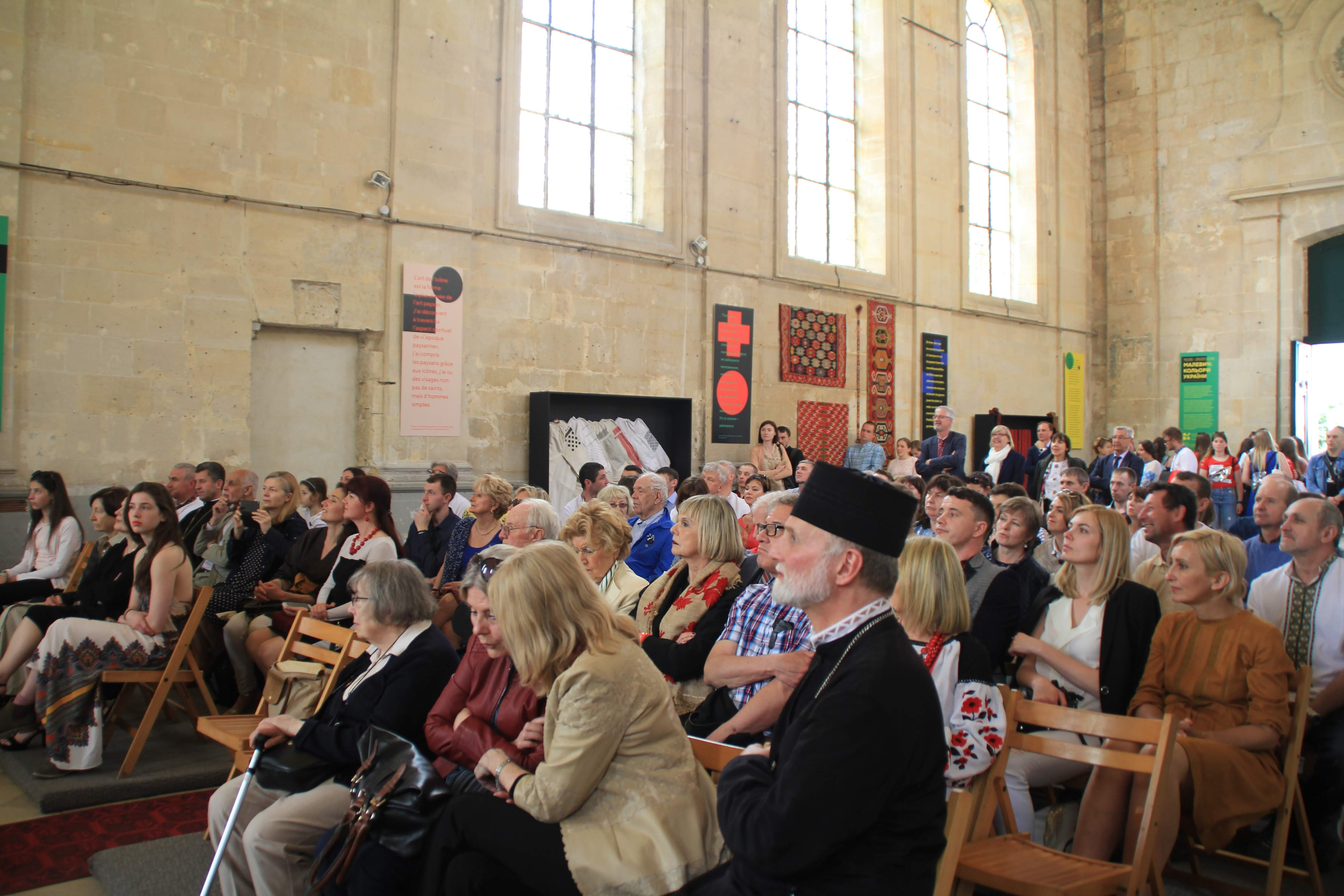 Center of Anna Kyiv presentation of the French-language book "Kazimir Malevich, Kiev period 1928-1930".